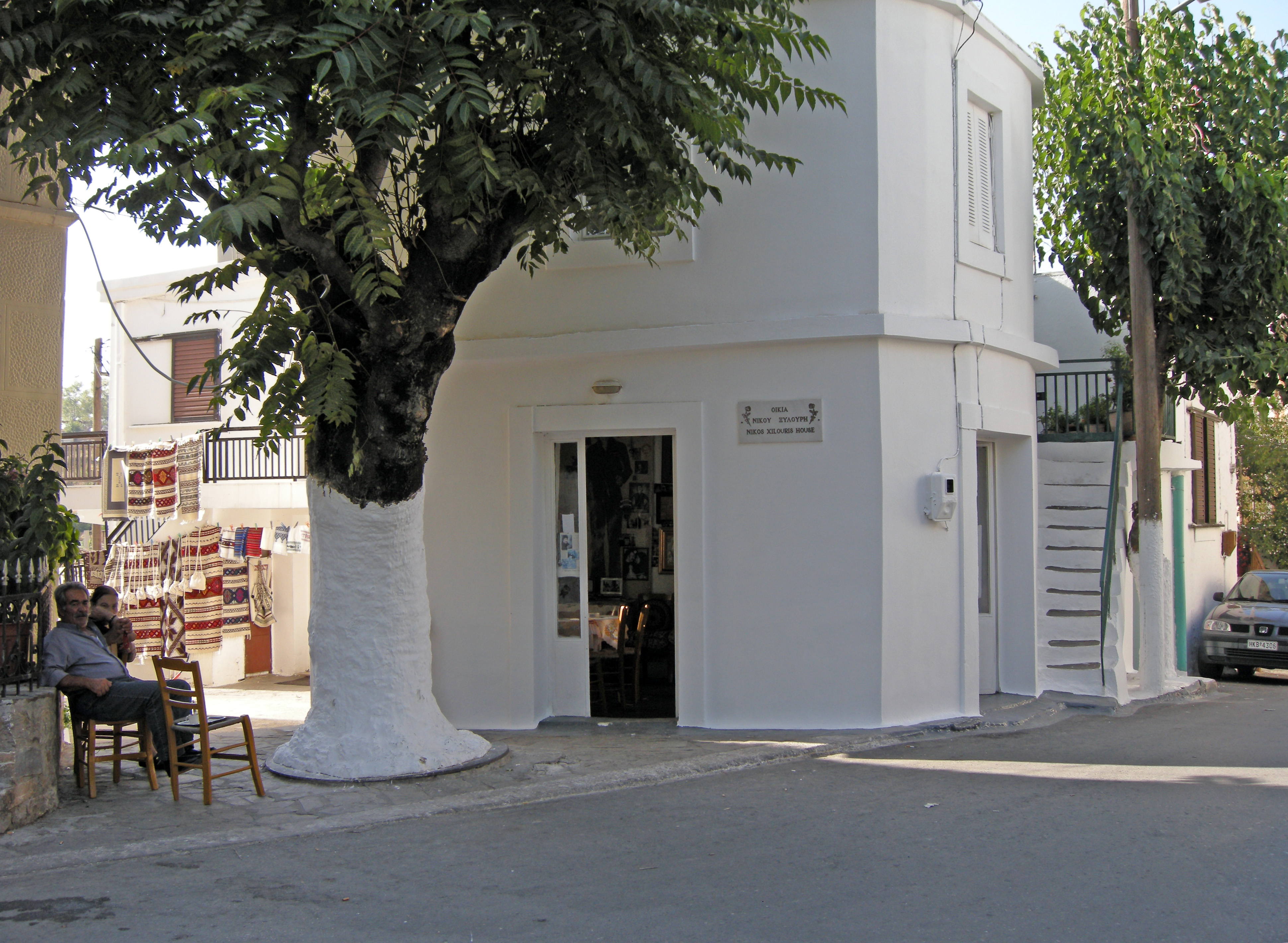 The House of Nikos Xylouris - a Greek musician - in Anogia (Anoghia), Crete, Greece